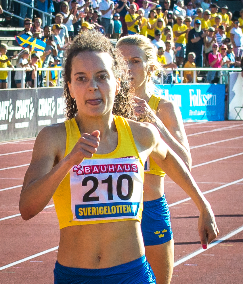 Yolanda Ngarambe during the Finland-Sweden athletics international 2019 at the Stockholm Stadium in August 2019.